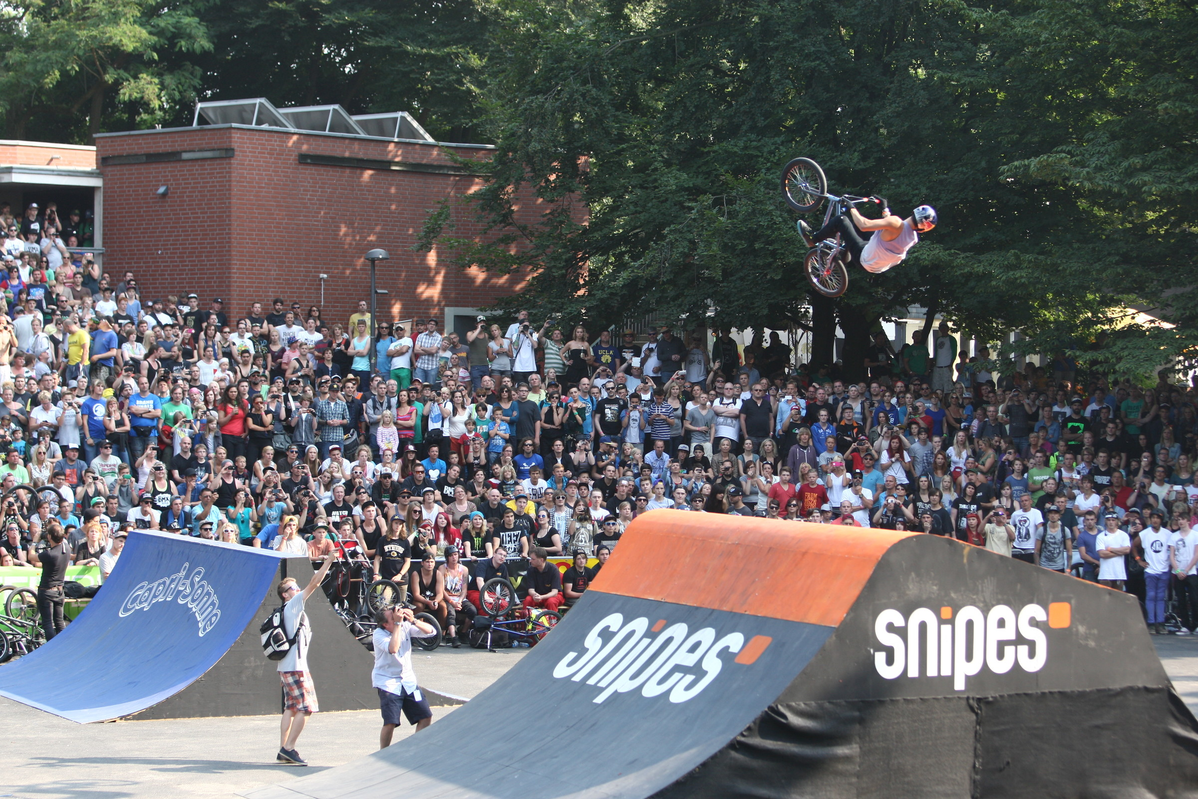 BMX Trick in park discipline at BMX-Worlds 2013 Cologne, Germany